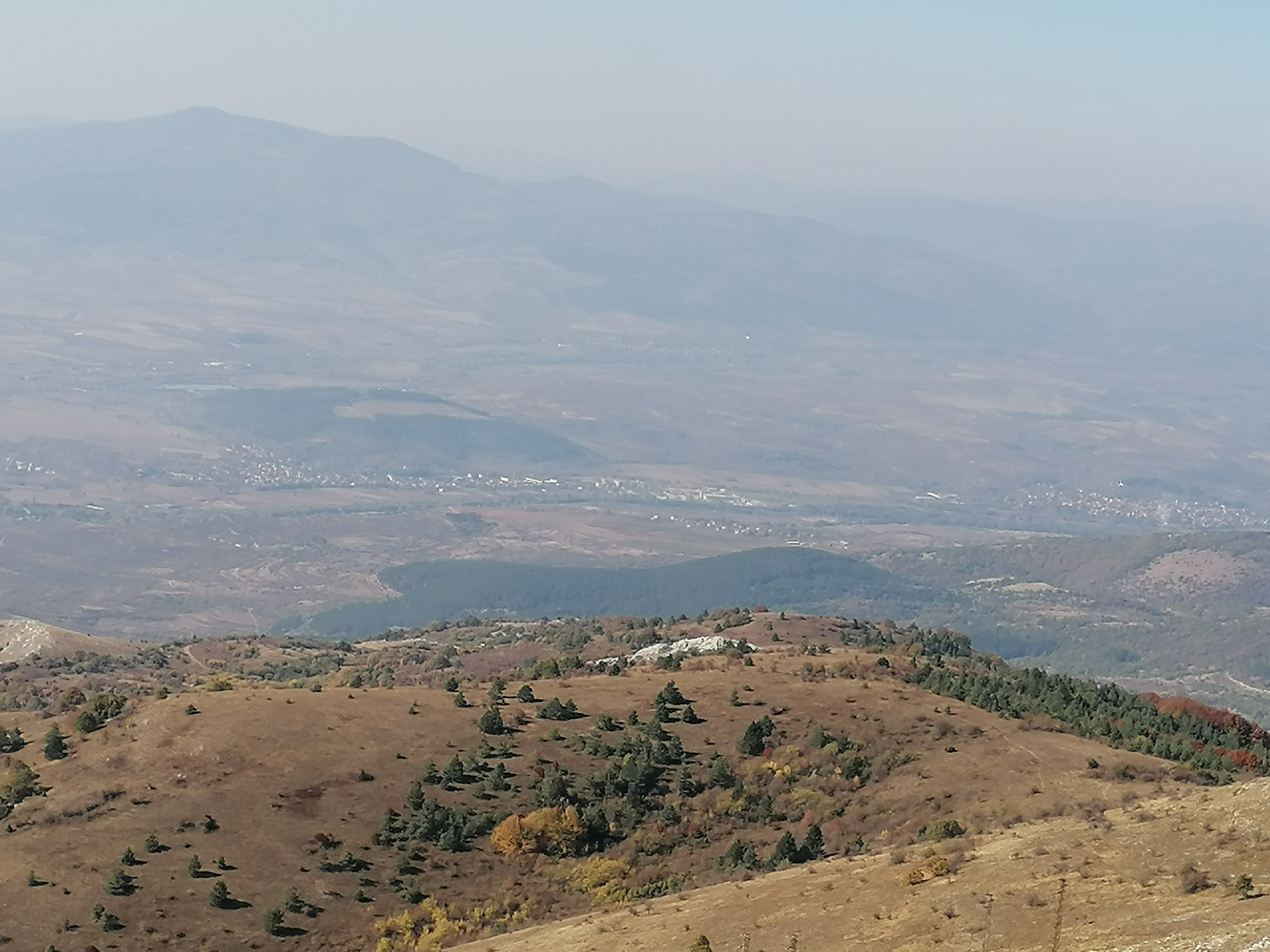 Battle of Velbazhd a view from the Konyavska mountain, Viden